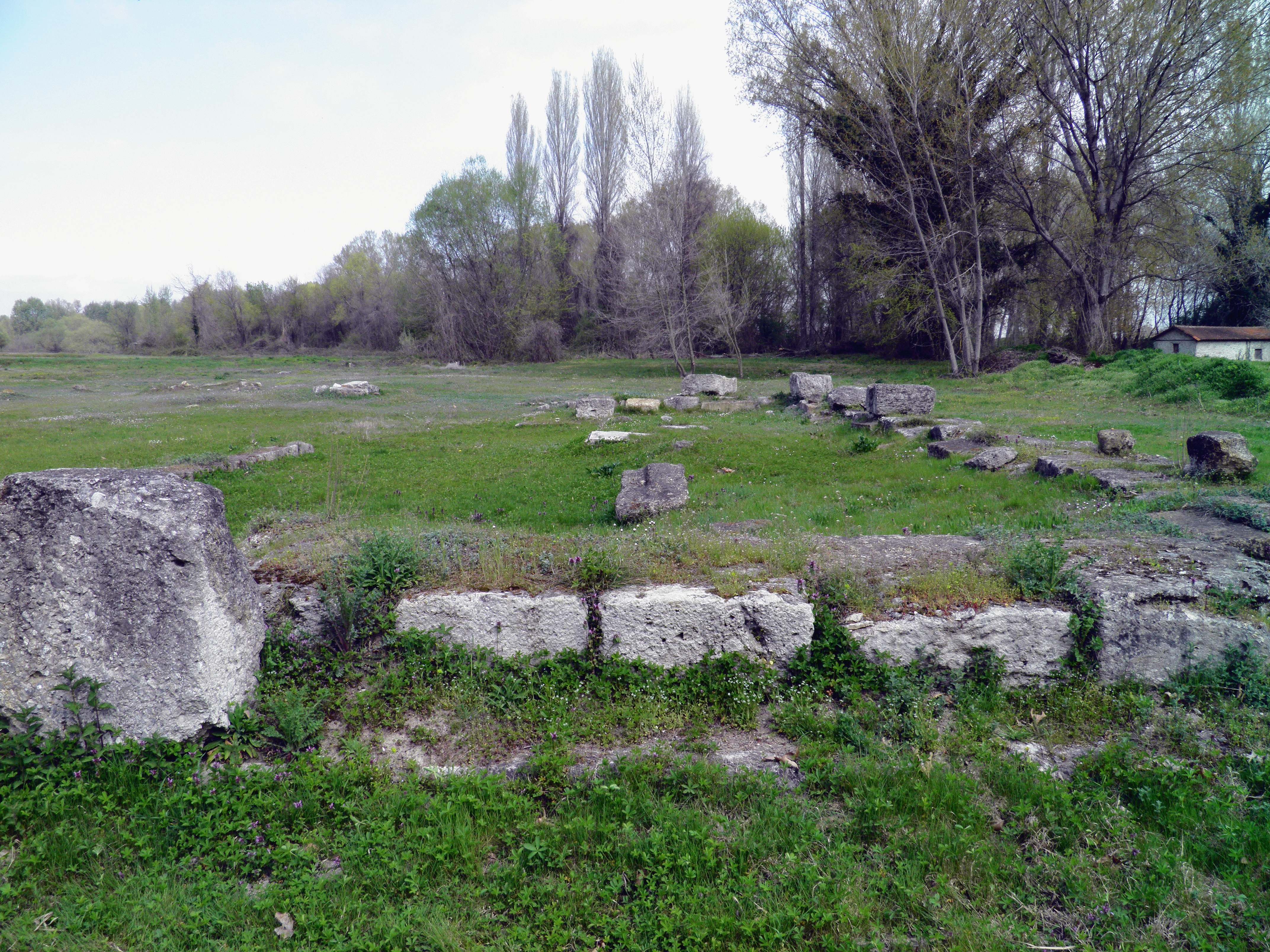 The sanctuary of Zeus Olympios was originally a grove. The first architectural structures were erected in the Hellenistic times. The precinct was surrounded by a wall, partially found. A stoa with propylon in the middle, separated the altar area from the grand yard to the west. Situated in a predominant position to the east of the sanctuary, is the altar of Zeus Olympios, an elongated struture 22 meters long. Built in the 4th century BC, probably over earlier altars. It was made by carved porous limestone and filled with bricks. In front of the altar there were three rows of eleven stone bases. A bronze ring attached to each base, was used to hold the sacrificial animal down. Inside the sanctuary, stood the statues of the Macedonian kings. Only the pedestral of the statue of Kassandros and a fragment of the pedestral of the statue of Perseus were found. In this same place probably stood the famous sculptures of Lysipos, a group of bronze horsemen, dedicated by Alexander the Great, in honour of those who fell in the battle of the Granikos river in 334 BC. The renowed sanctuary of the Macedonians was burned down in the summer of 219 BC by the Aetolian army. Their ill-famed general Skopas destropyed the building and knocked to the ground the statues of kings. The Macedonians of Dion rebuilt their sanctuary and buried in pits many of the dedication that had been destroyed. Recent excavations have brought to light just such pits containing, among other things, royal inscriptions of value for the history of Macedonia, such as a letter of Philipp V to the inhabitants of Pherai and Demetrias, an alliance agreement between Philipp V and the Lysiacheians, the healing text of the treaty between king Perseus and the Boiotians etc.